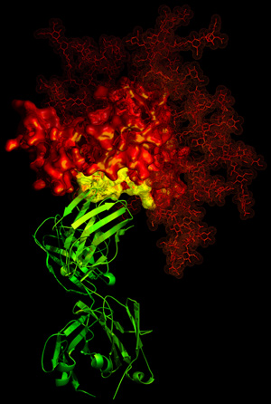 Ligand-receptor binding. HIV-1 gp120 glycoprotein ligand (red); CD4-glycoprotein receptor (yellow); b12 antibody-protein ligand (green)